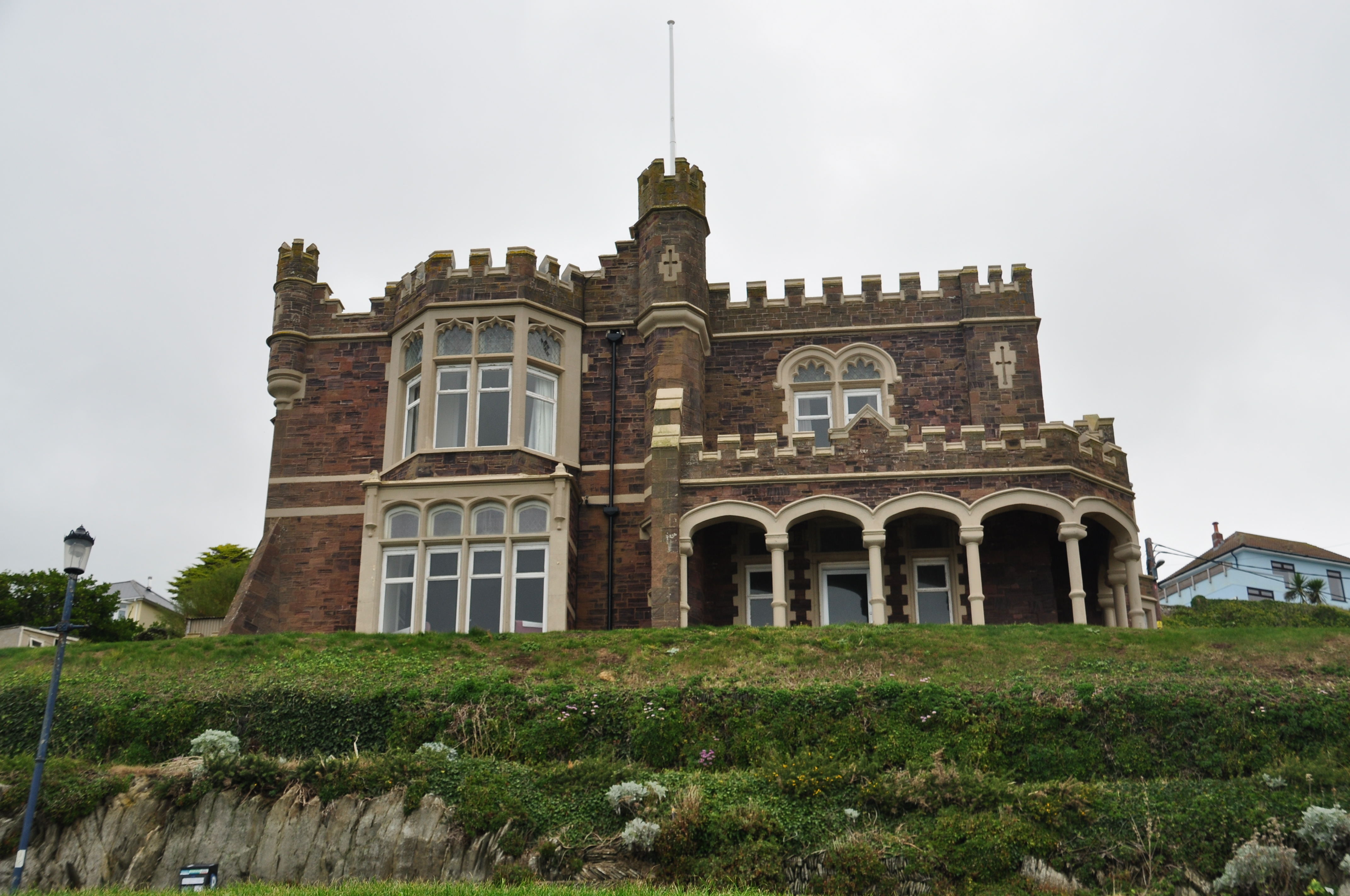 Building in Woolacombe